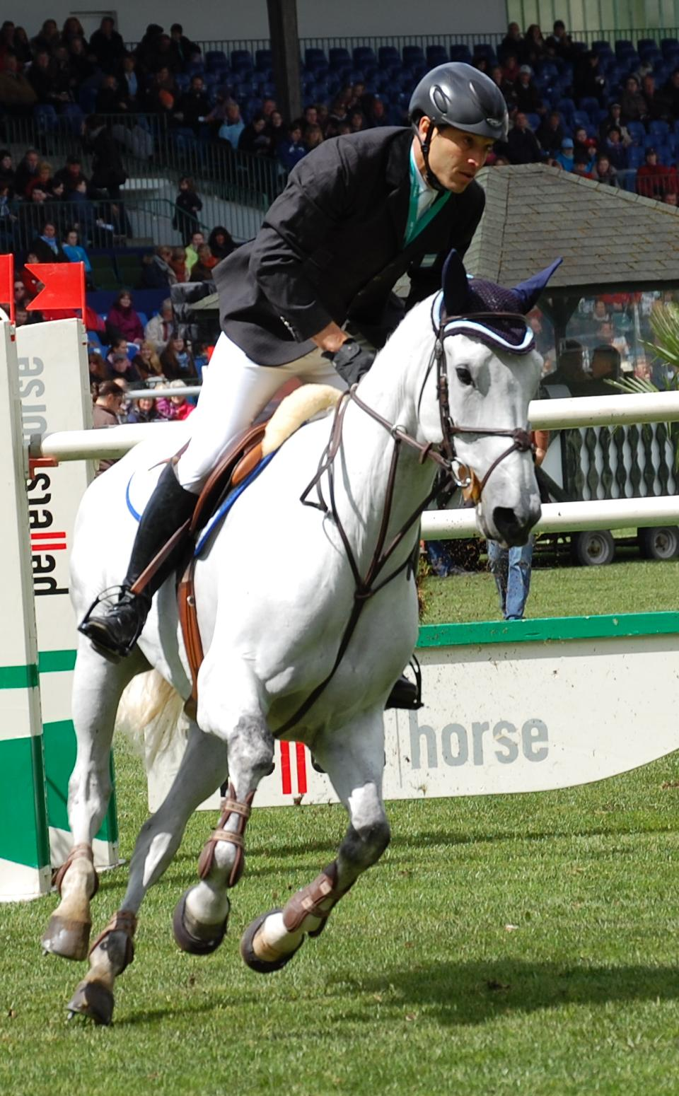 Argentinian rider José Larocca with Tortola, "Championat von Hamburg", CSI 5* Hamburg 2012